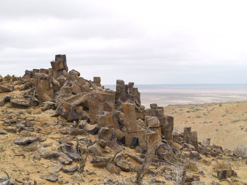 "Stone forest" in Jaraquduq